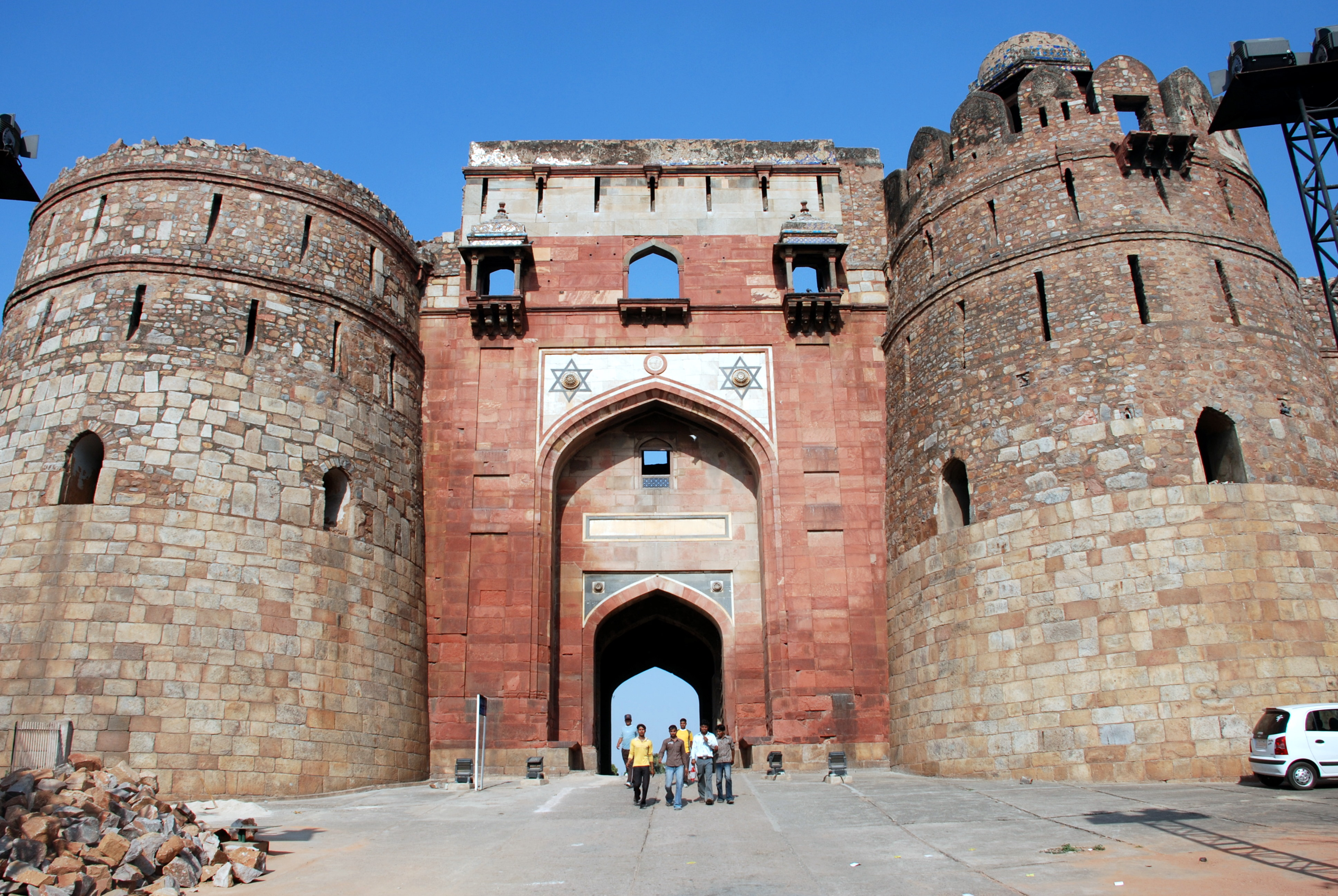 Purana Quila in Delhi, where Samrat Hem Chandra Vikramaditya had his coronation on 7th October 1556 after defeating Akbar's army.